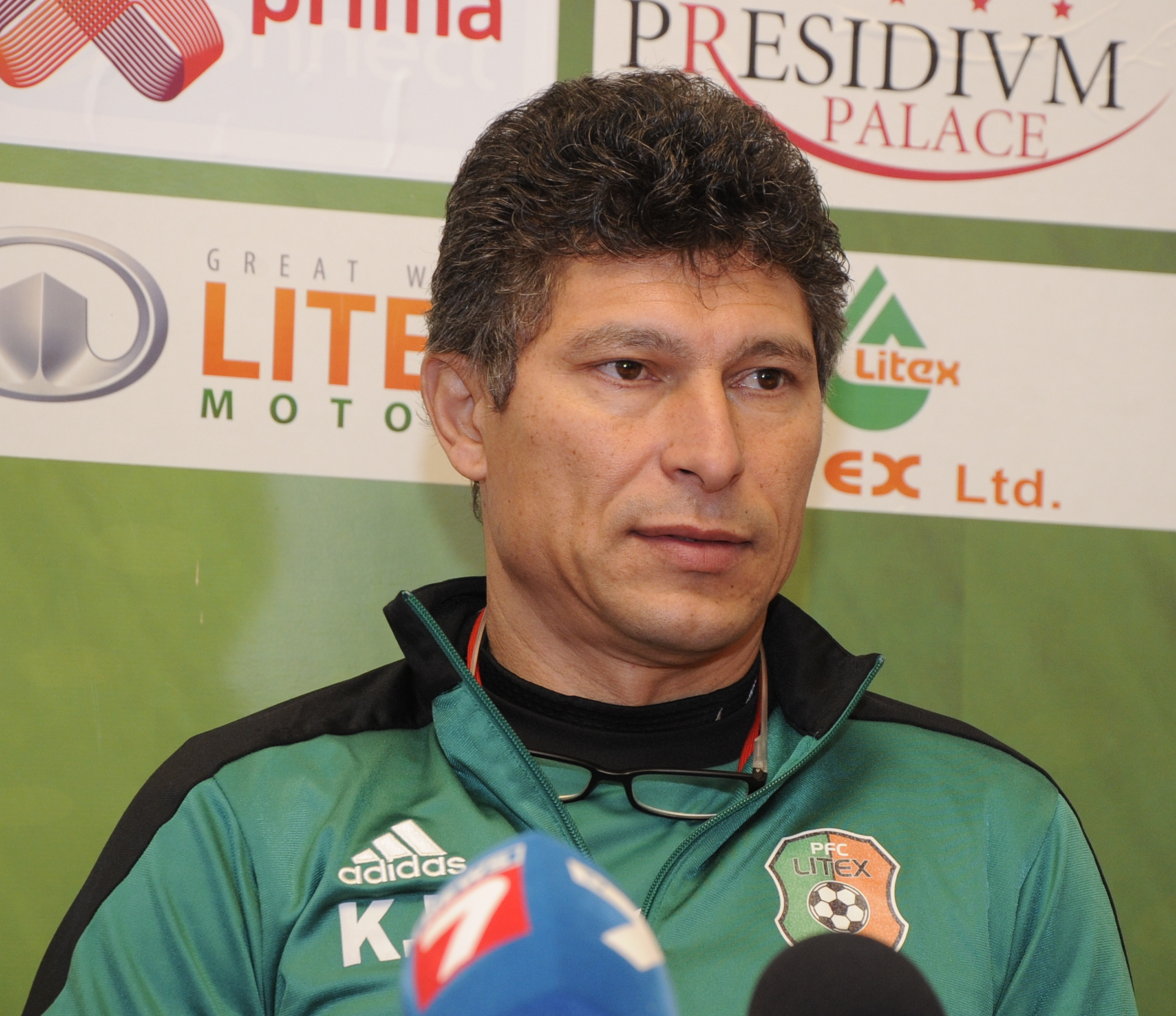 Krasimir Balakov